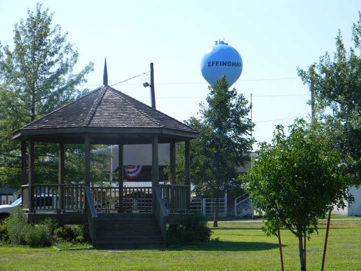 A picture of Effingham where you can see the water tower